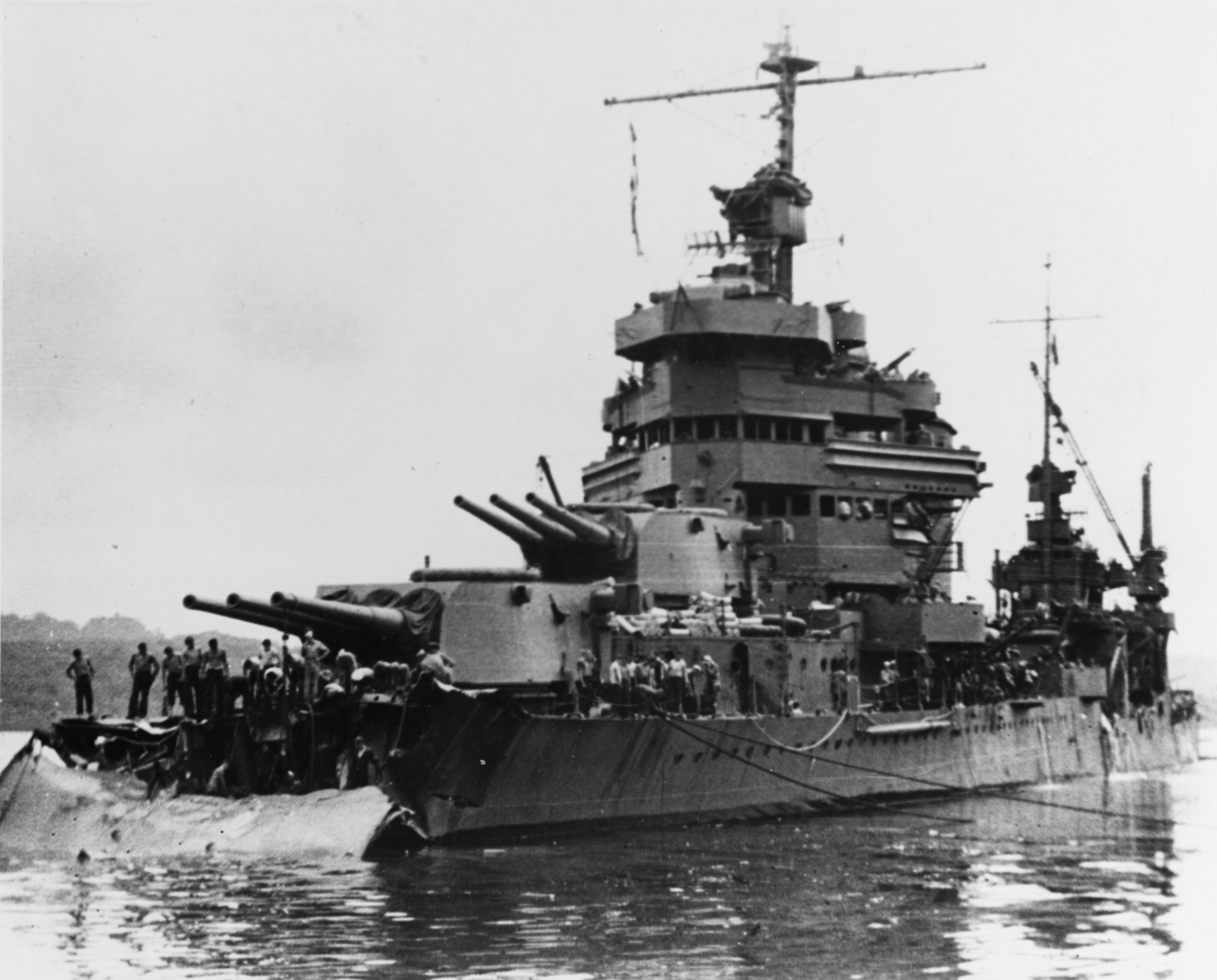 The U.S. Navy heavy cruiser USS Minneapolis (CA-36) at Tulagi with torpedo damage received in the Battle of Tassafaronga, the night before. The photograph was taken on 1 December 1942, as work began to cut away the wreckage of her bow.